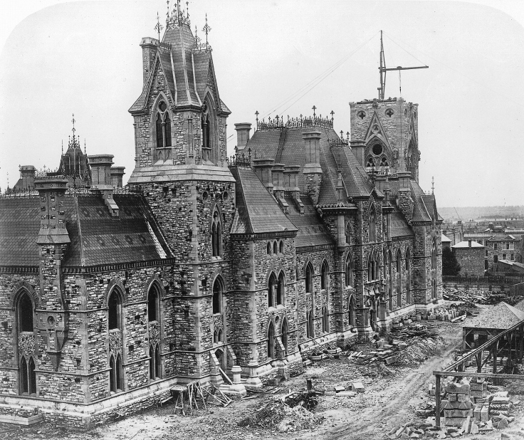 Parliament buildings under construction. Ottawa, Canada.